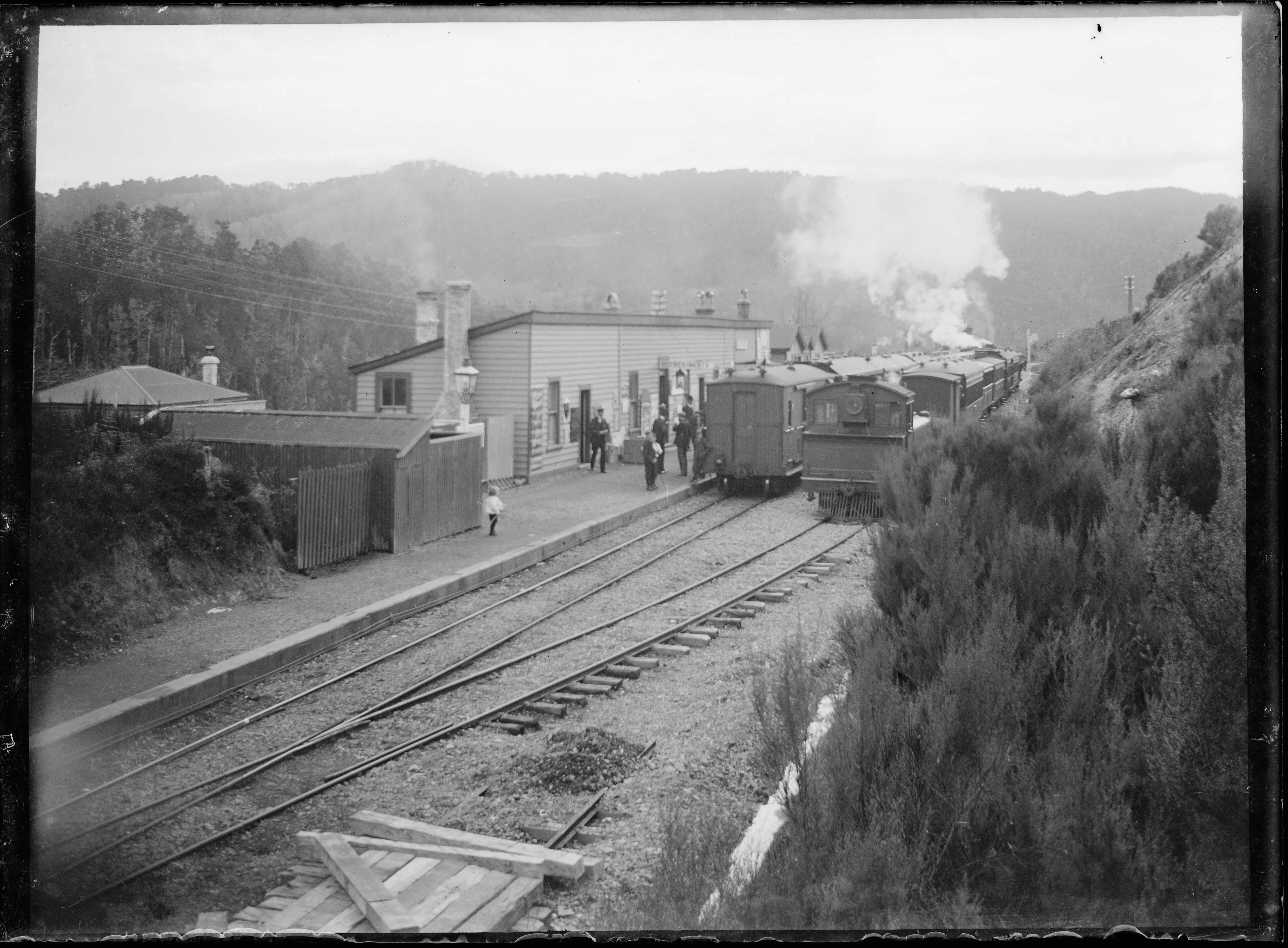 Trains crossing at Kaitoke Railway Station. Class Wb locomotives, photographed in 1901 by A P Godber.